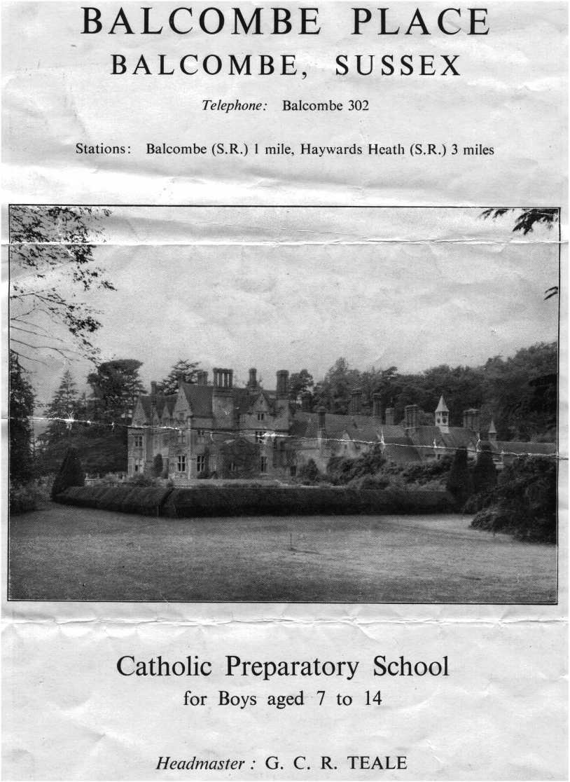 The front cover of the prospectus for Balcombe Place School. Originally printed in 1955.